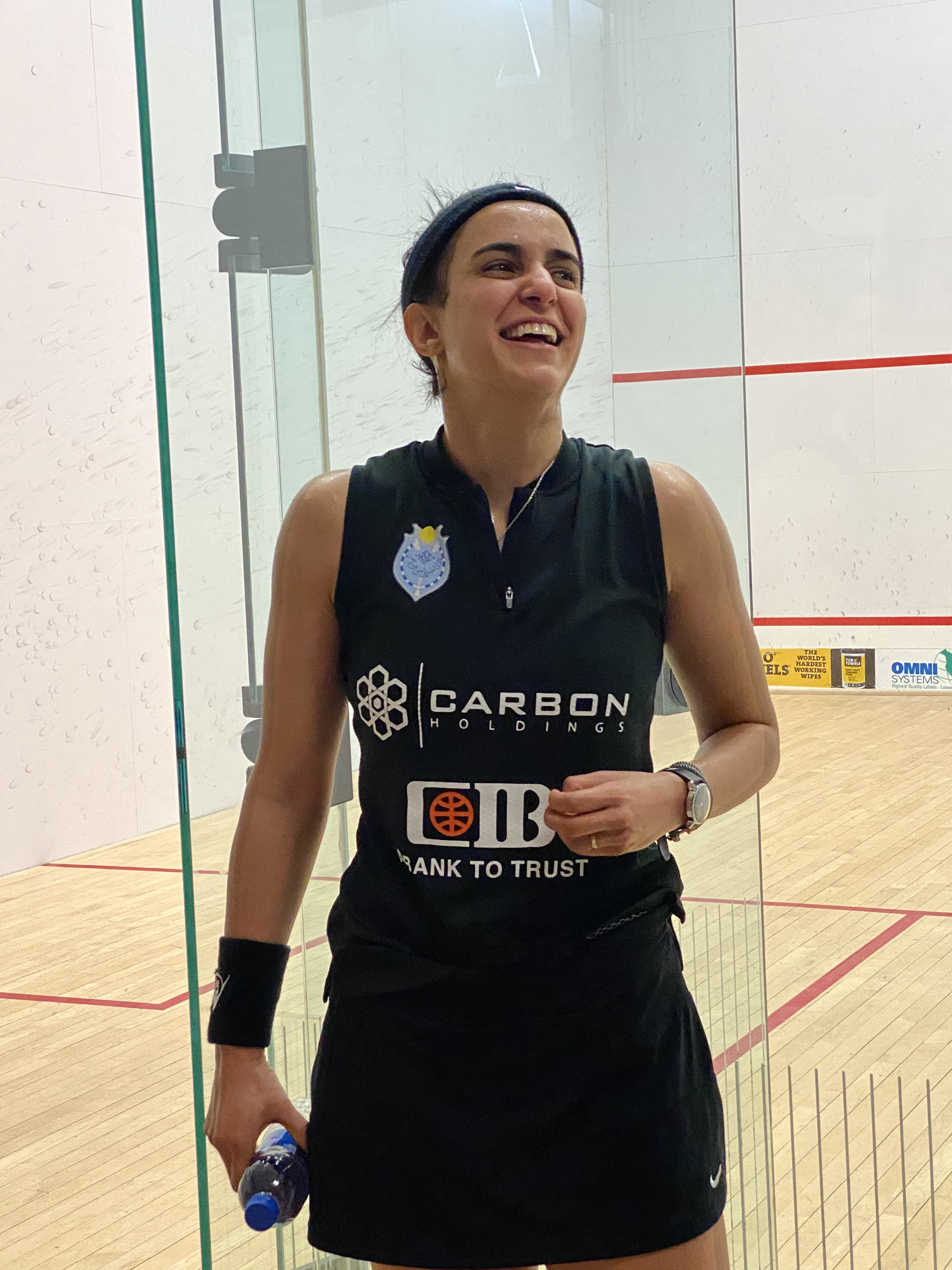 Nour El Tayeb gives interview in post-match, semi-final round victory against Joshna Chinappa at Cleveland Classic 2020 in Cleveland, Ohio USA